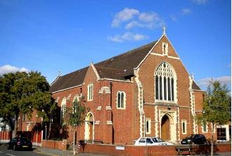 Our Lady of Lourdes Wanstead